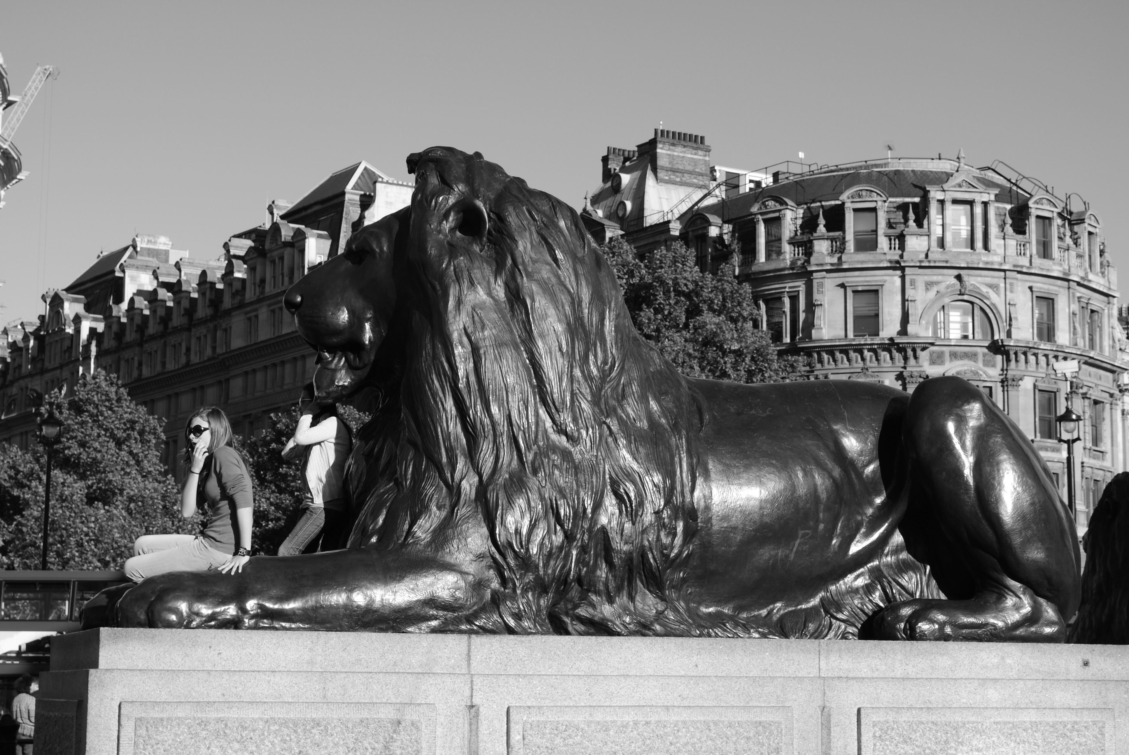 One of the four lions at Nelson's column, Trafalgar Square, London